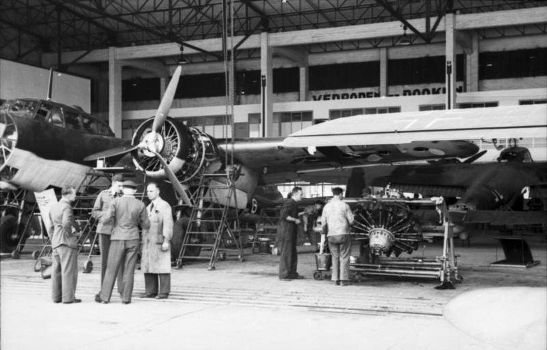 Information added by Wikimedia users.This is Belgium, not France. Inside the hall is an inscription in Dutch language ("verboden te rooken" - No smoking). --Magadan (talk) 11:51, 18 February 2009 (UTC)